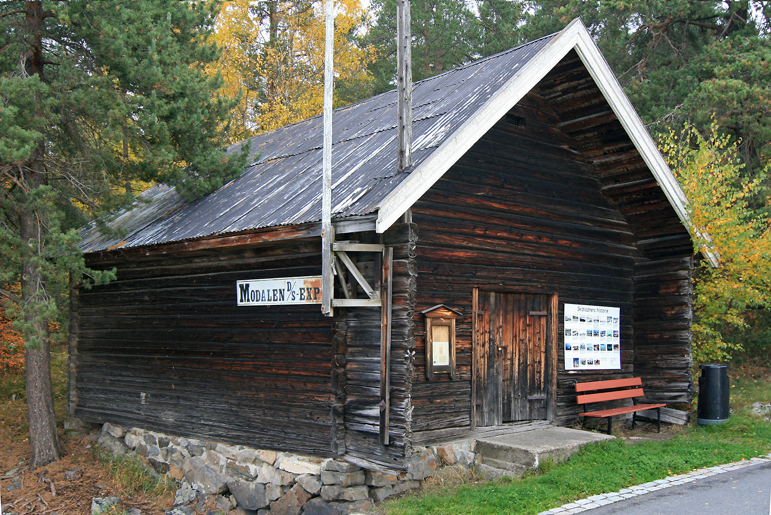 Old warehouse in Moelv for steamship traffic on Lake Mjøsa, Norway.